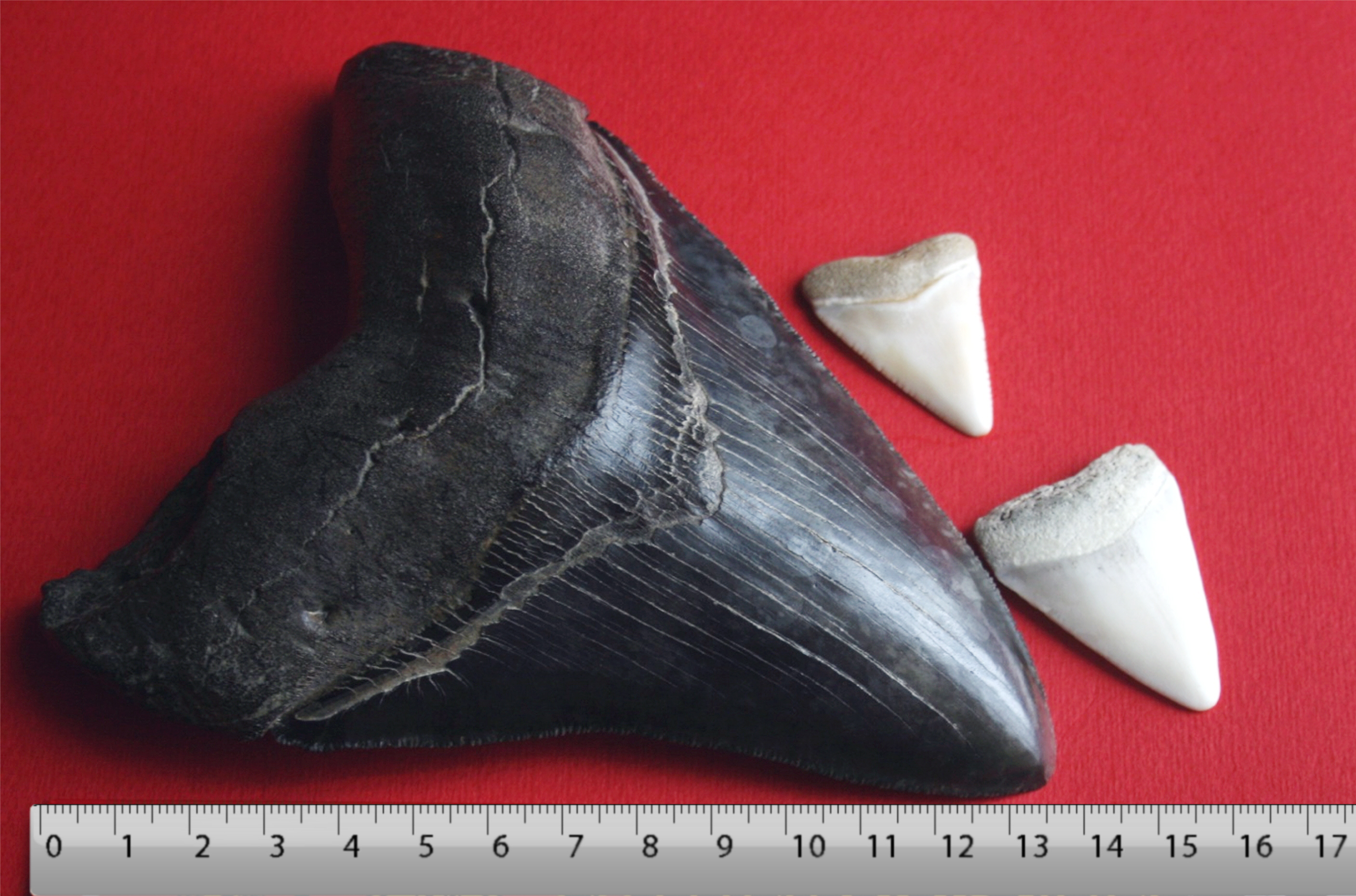 Megalodon tooth with two great white shark teeth and with a ruler to see the size The 36cm computer-drawn ruler.